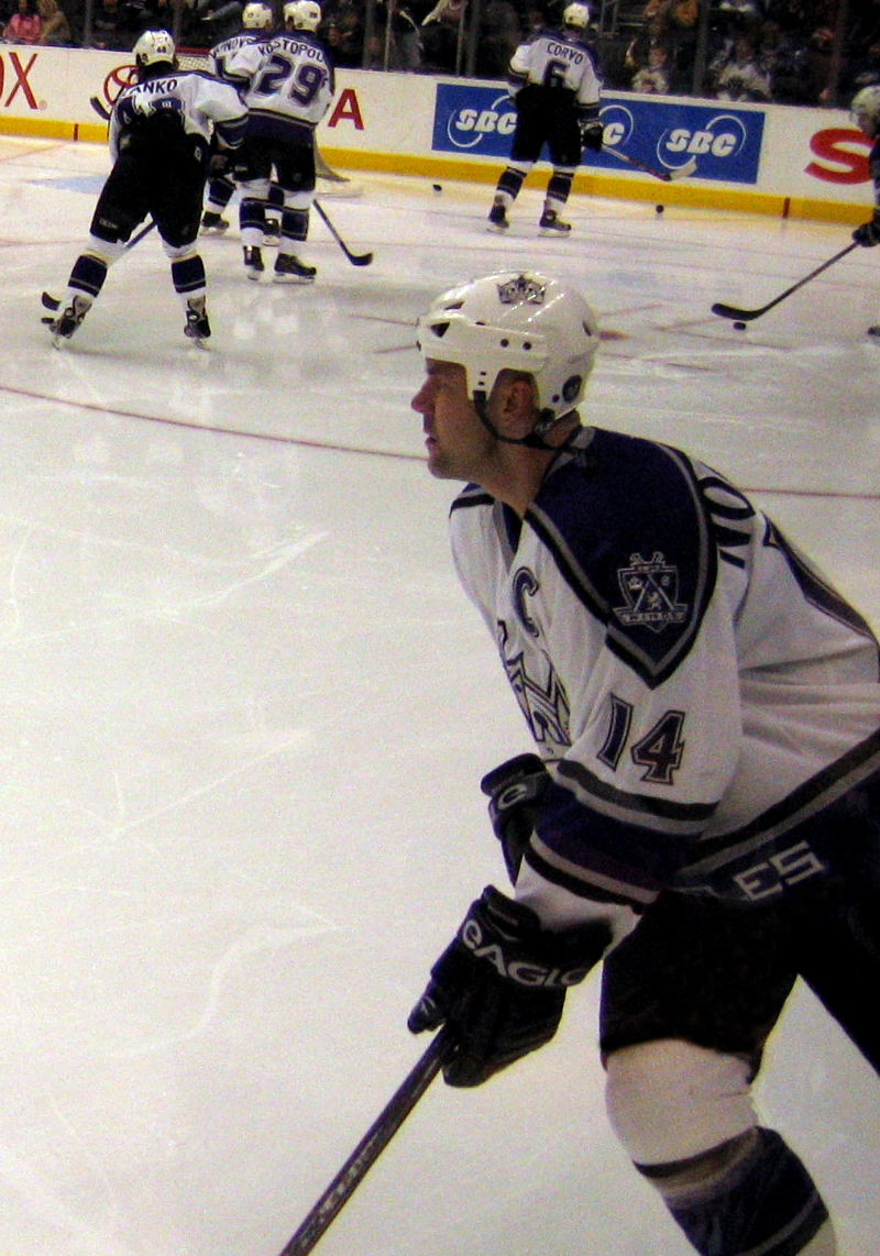 Mattias Norström in a pregame warmup 02-Jan-2006 at the Staples Center in Los Angeles, CA.